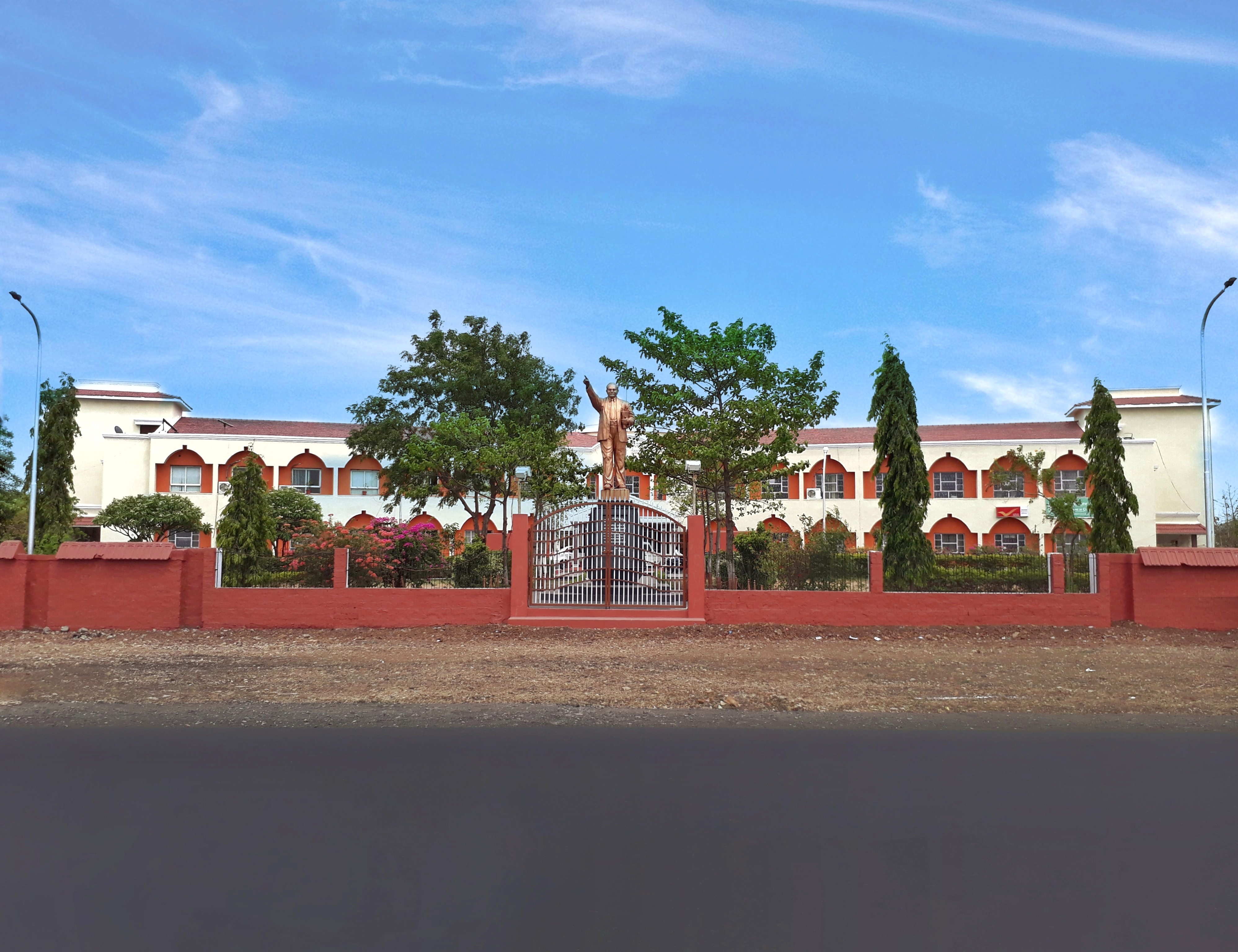 Dr. Babasaheb Ambedkar International Institute of Social Sciences